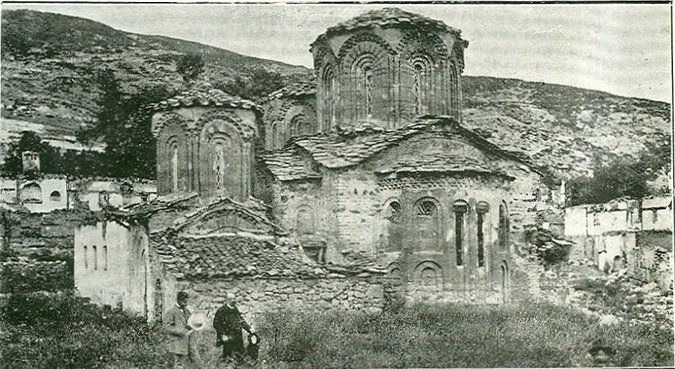 Veljusa Monastery, Macedonia